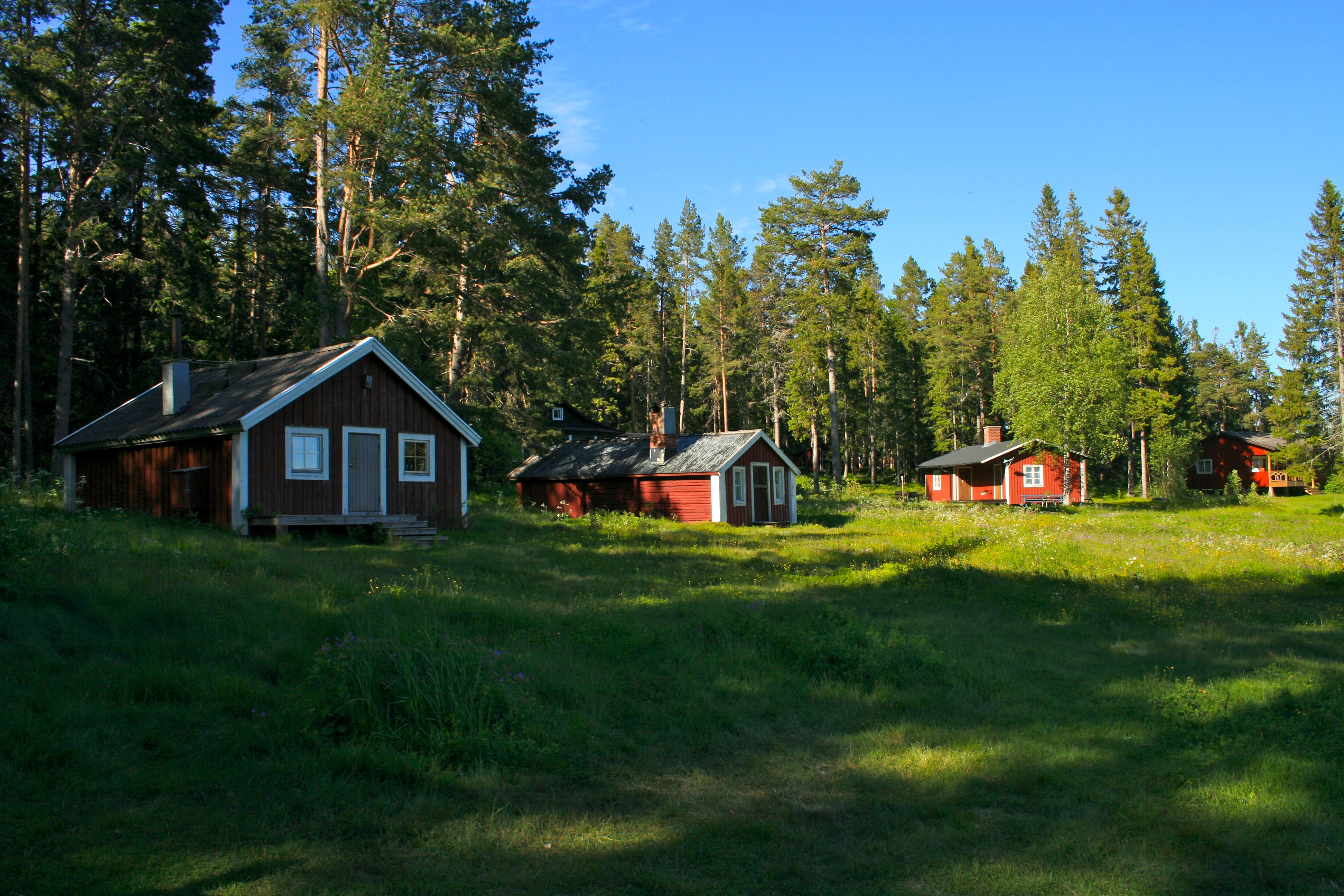 Näskebodarna, in Skuleskogen national park.